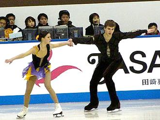 Tatiana Volosozhar and Petr Kharchenko at the 2003 NHK Trophy.